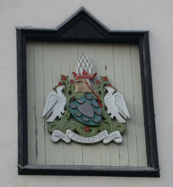 Erpingham Gate, detail The arms of Sir Thomas Erpingham, leader of the English archers at Agincourt, who caused the gate to be built c.1420. The mysterious word "yenk" is said to be a variant of "think", i.e. remember the donor.